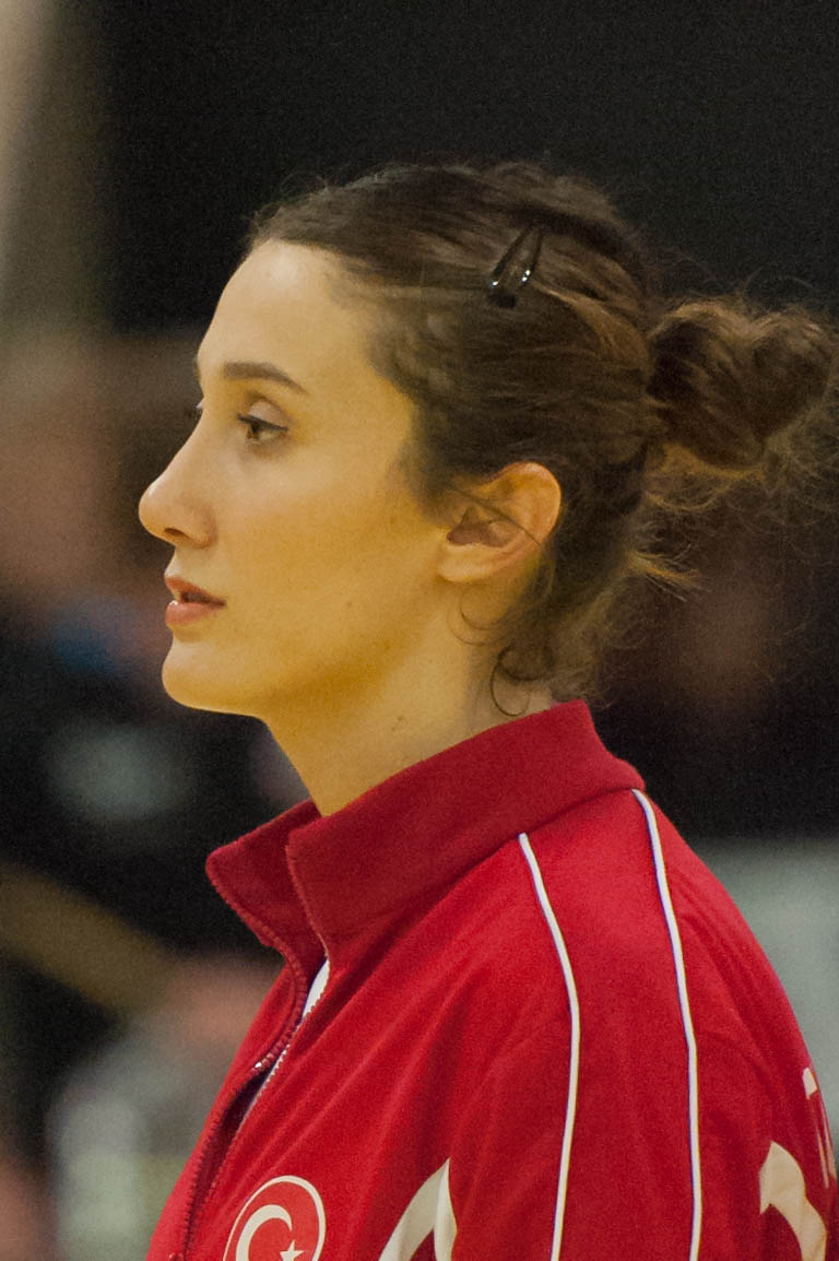 2015 World Women's Handball Championship Qualification 2014-12-06: Aslı İskit